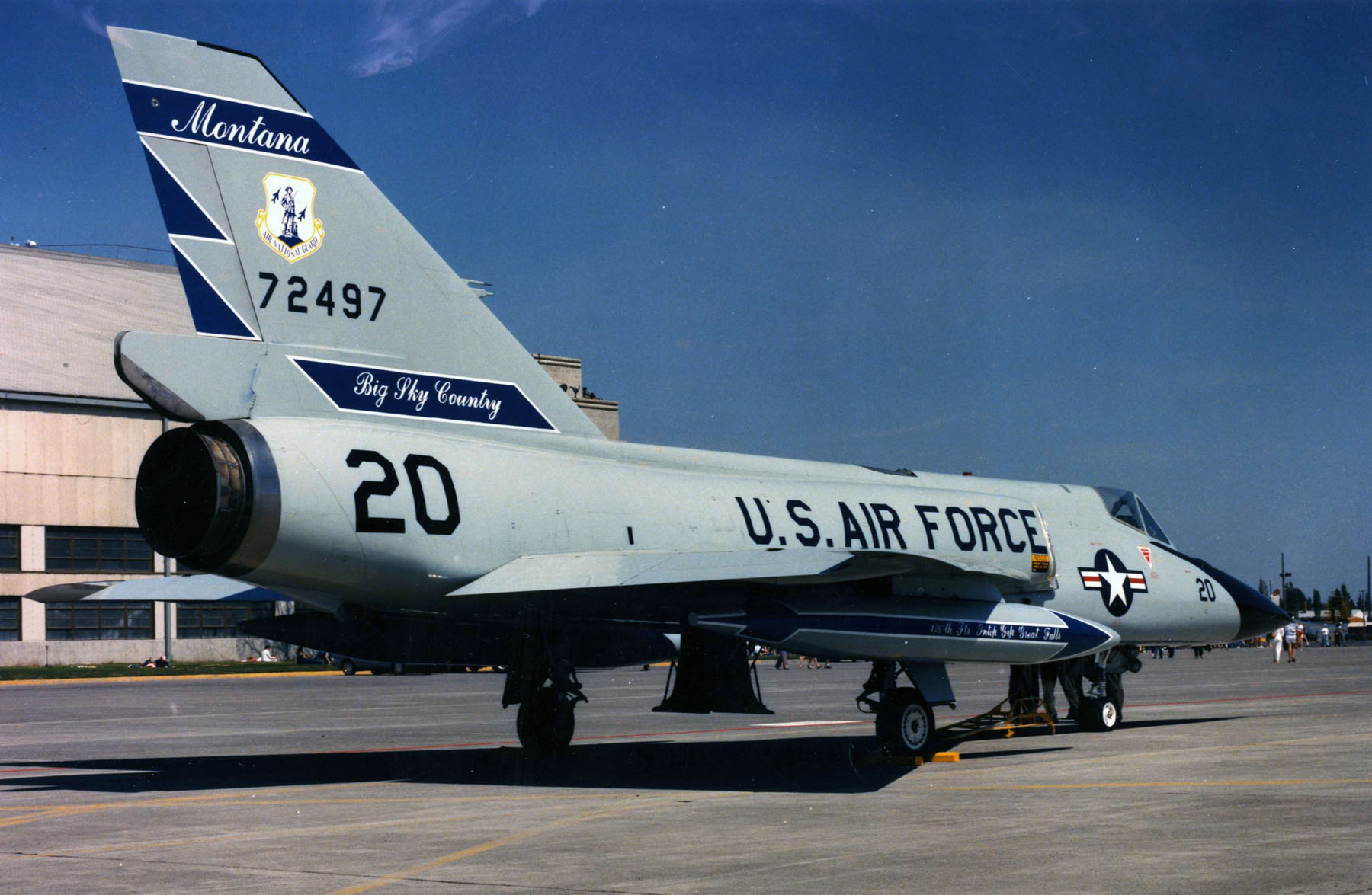 A U.S. Air Force Convair F-106A-90-CO Delta Dart (s/n 57-2497, c/n 8-24-80) from the 186th Fighter-Interceptor Squadron, Montana Air National Guard. This aircraft was retired to the AMARC as FN0113 on 13 April 1987. It was converted to an QF-106 (AD194) and shot down with an AIM-120 on 21 January 1993.